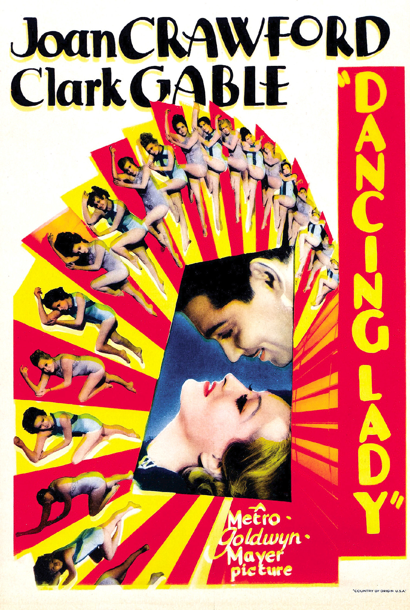 Poster from the 1933 film Dancing Lady.